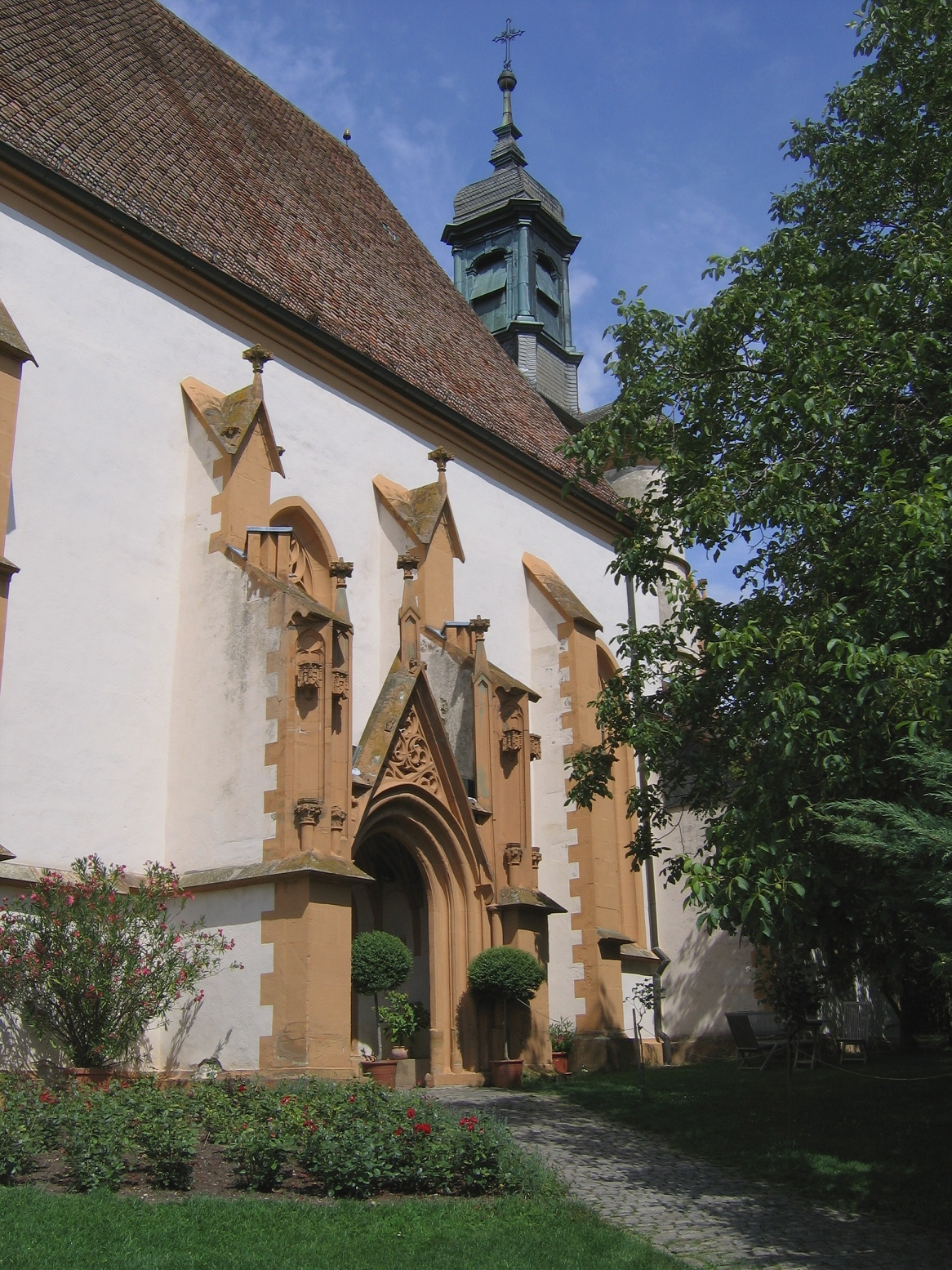 Volkach, Bavaria, Germany, pilgrimage church Maria im Weingarten, south portal